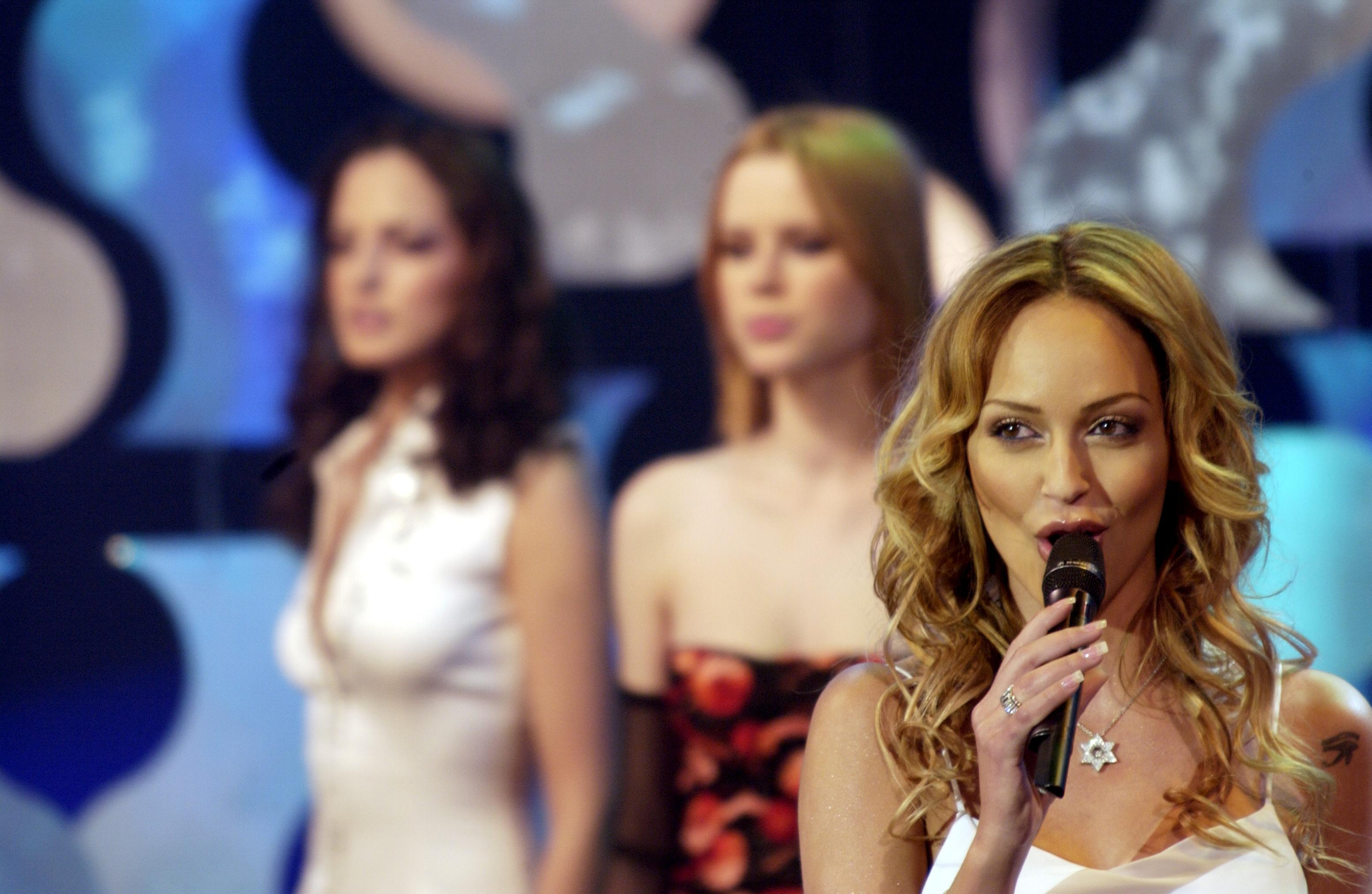 2003 beauty contest in Haifa's "Congress Center". In photo, model Miri Buhadana performing..